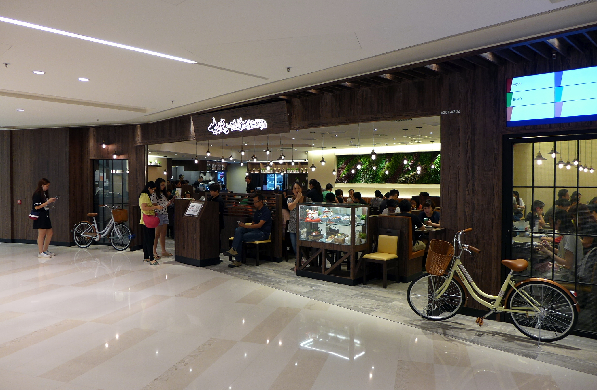 Yummy Delight in YOHO Mall